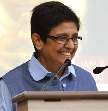 Kiran Bedi talks to students as part of Lectures and Demonstrations at Saarang, IIT Madras